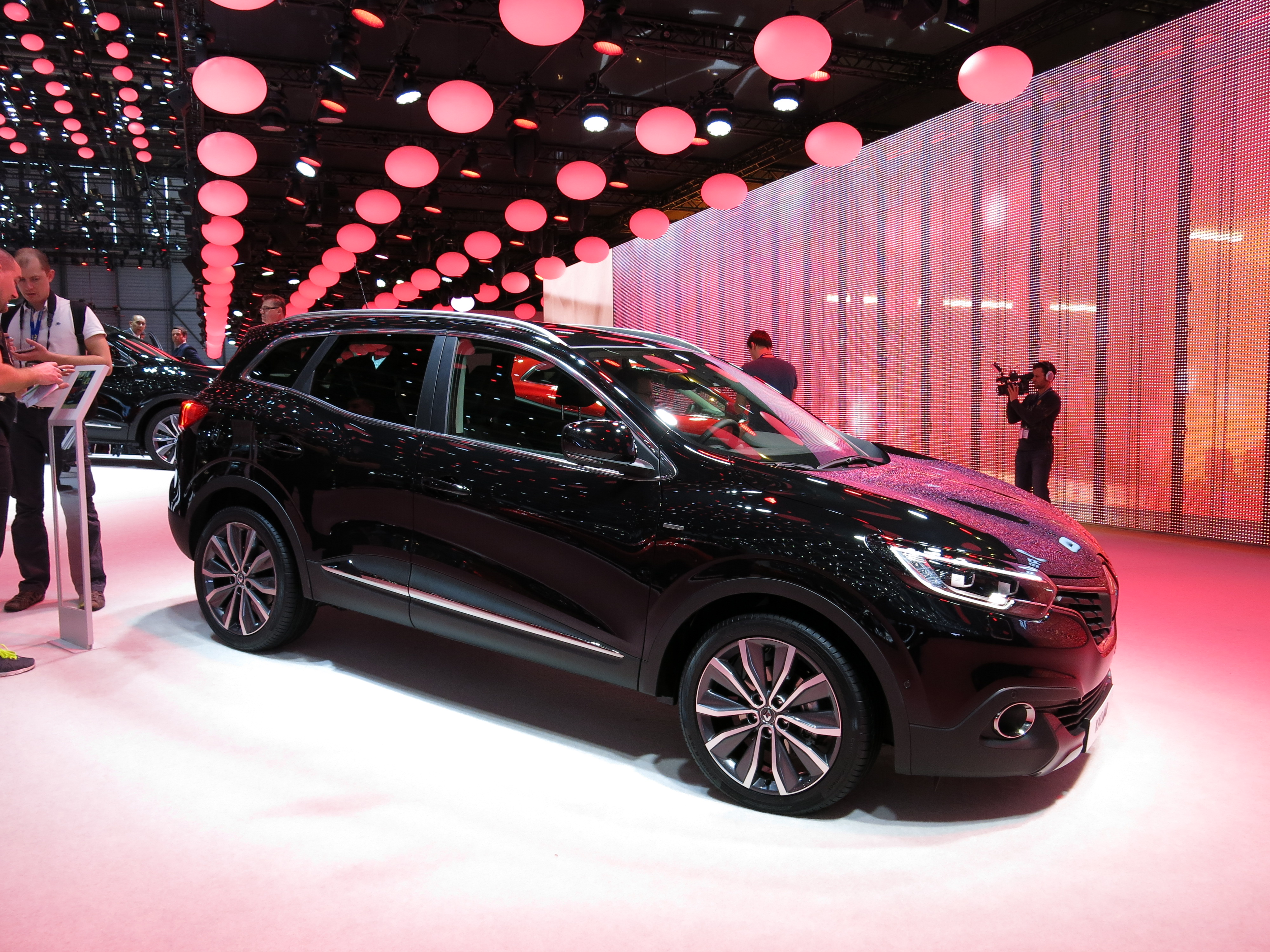 Geneva Motor Show 2015 (photo taken on the first press day)